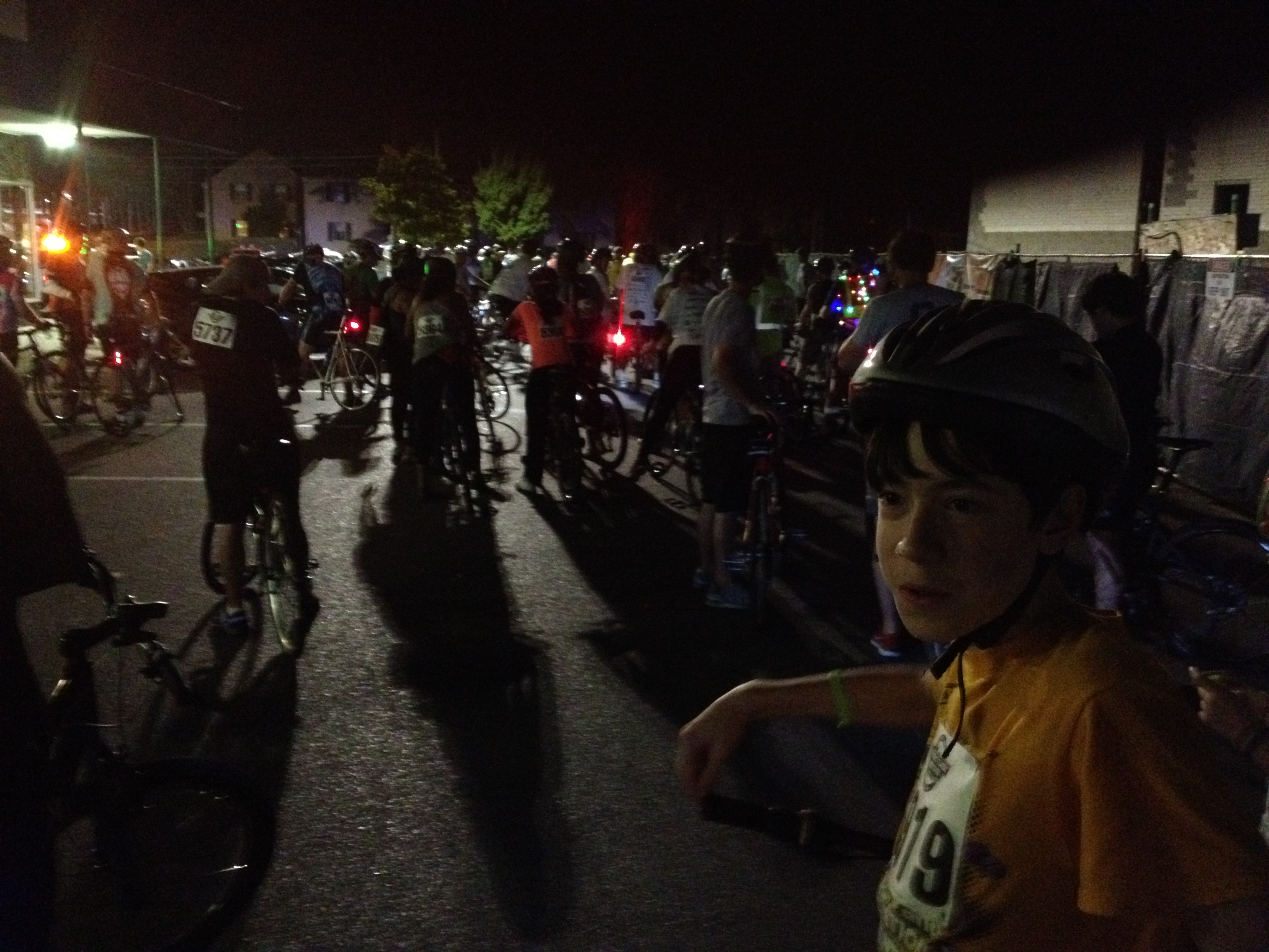 The Midnight Classic bike ride in Memphis, Tennessee (which took place on 08-25-2012)